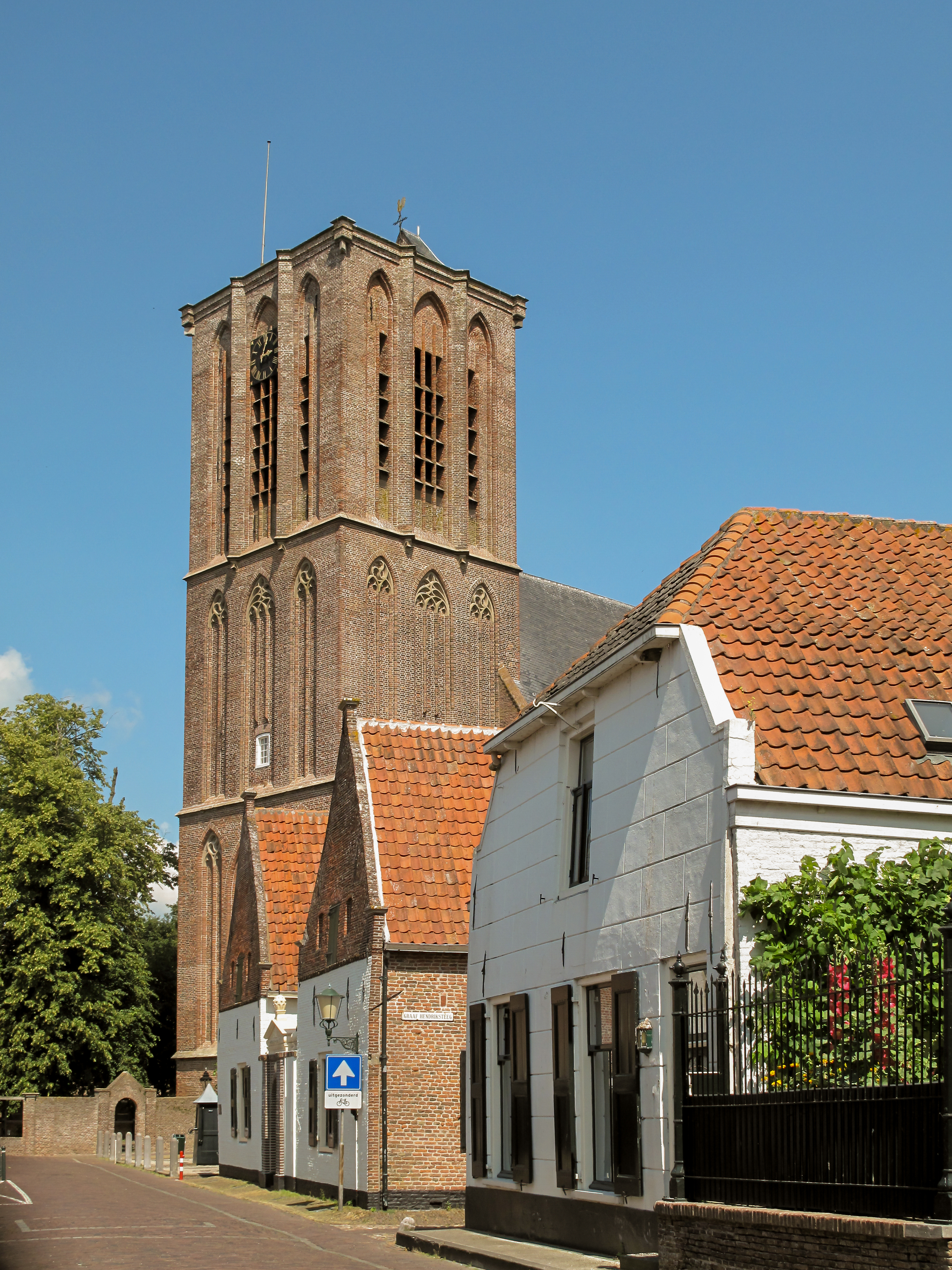 Elburg, churchtower (de Sint Nicolaaskerk)